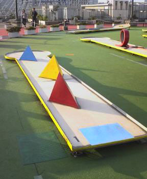 This is 1st course of bahn golf.